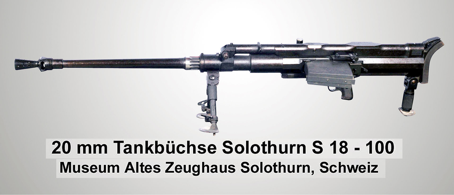 Tankbüchse SOLO S18-100